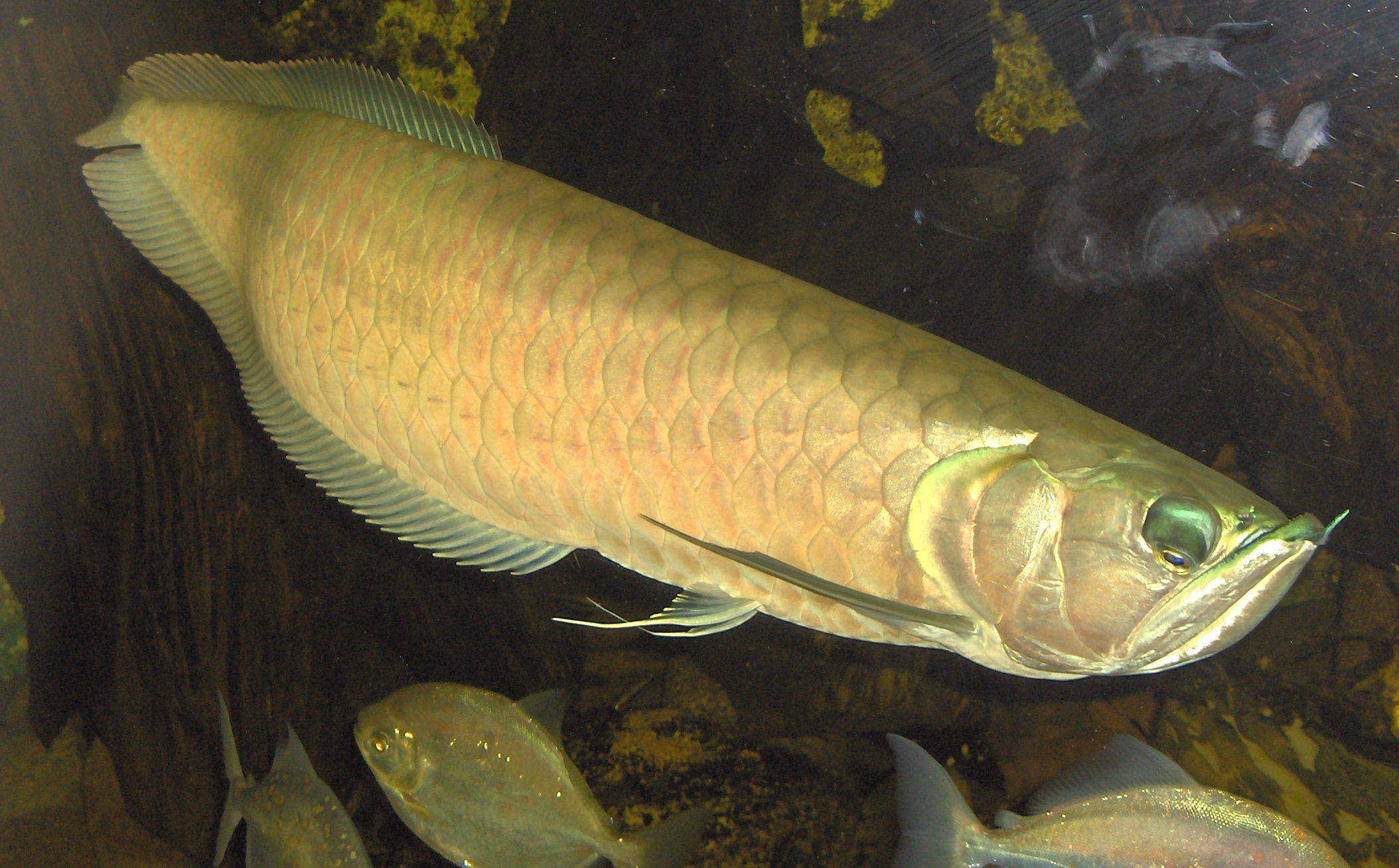 Image of Osteoglossum bicirrhosum (Silver Arowana). They are native to the Amazon River system, and are know to have grown as long as 1 meter long in captivity and 1.2 meter in the wild. When kept in an aquarium, it should be securely covered, to prevent the fish from jumping out. The are known as 银龙鱼 ('Silver Dragon Fish') in Chinese, and are populat with East Asian aquariumists for their resemblance to a Chinese dragon, a good luck symbol.